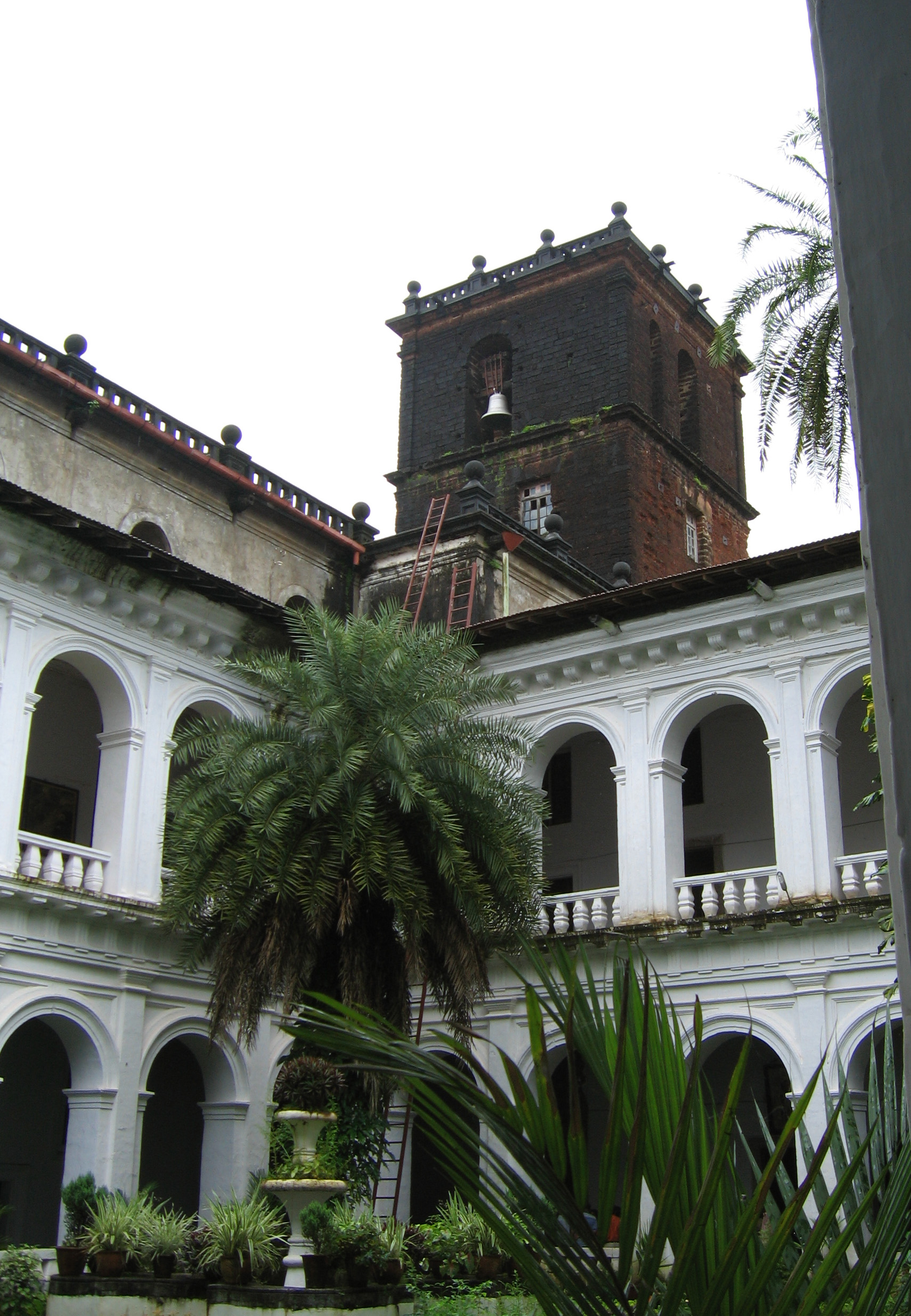 Goa - Basilica of Bom Jesus, views inside and around